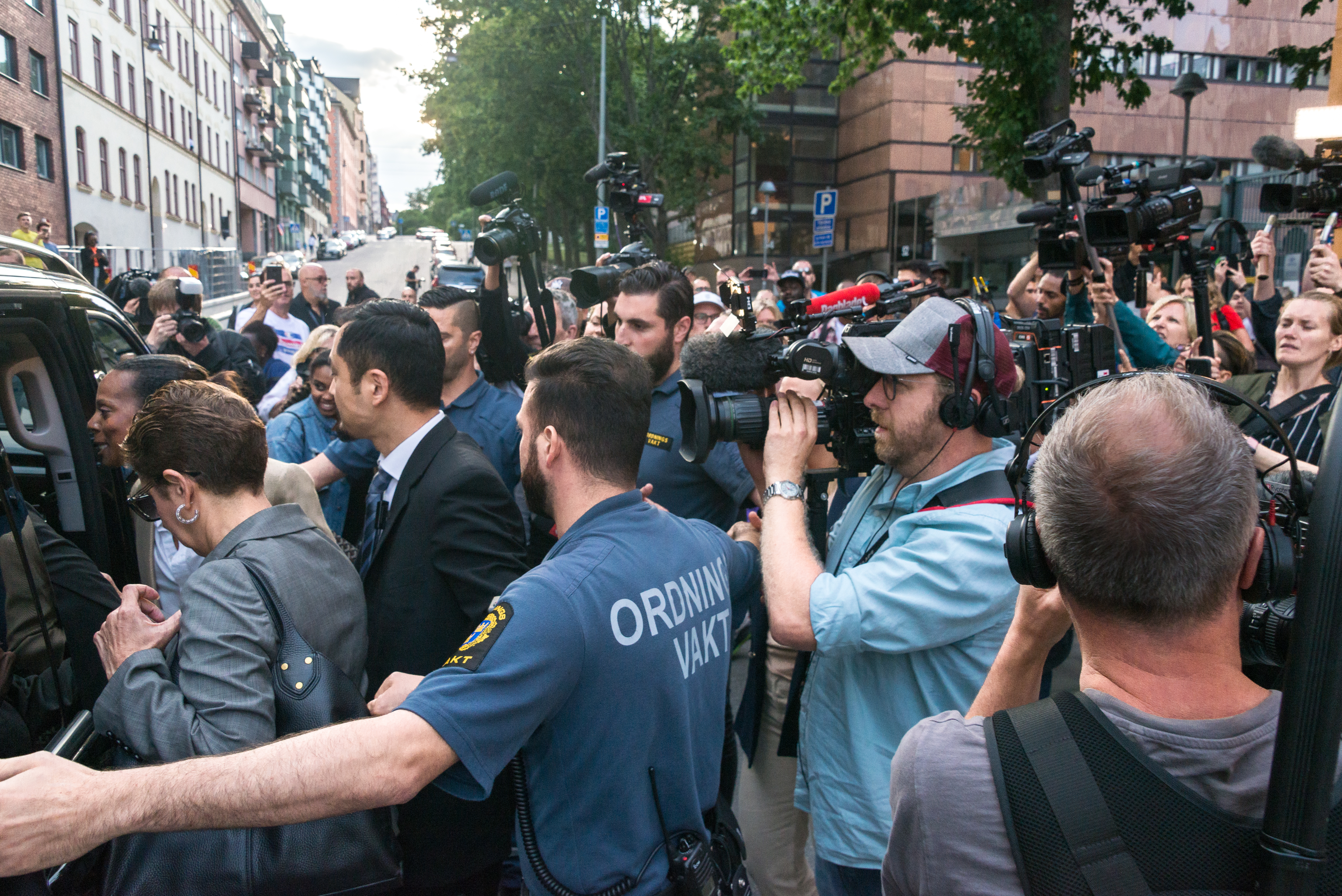 A$AP Rocky is released from the custody and jumps into a car past all photographers and film cameras.